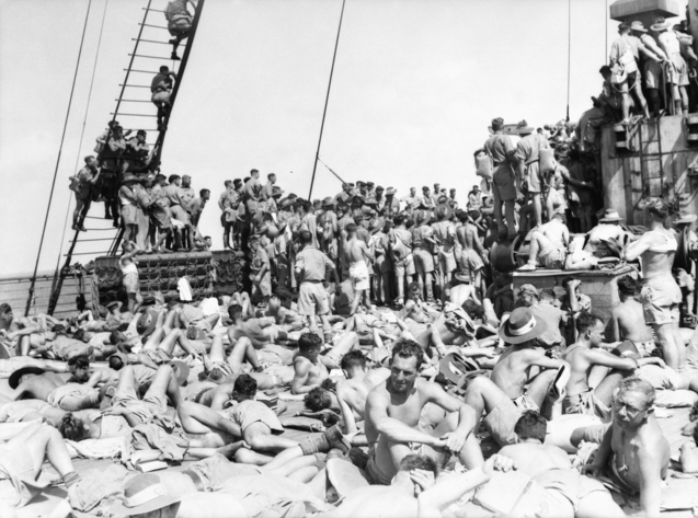 ON BOARD HMT NIEUW AMSTERDAM, AT SEA. 1943-02. RETURN OF 9TH AUSTRALIAN DIVISION AND HEADQUARTERS A.I.F.(M.E.) TO AUSTRALIA FROM THE MIDDLE EAST. TROOPS SUNBAKING ON DECK, WHILE THOSE IN THE BACKGROUND WATCH A BOXING BOUT.